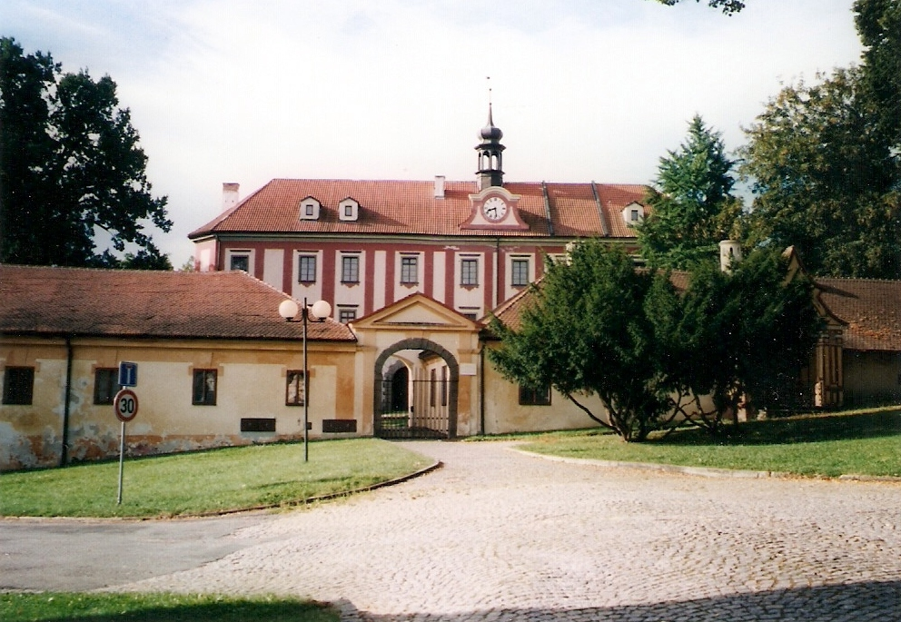 Protivín town in Písek district, Czech Republic. The Protivín castle